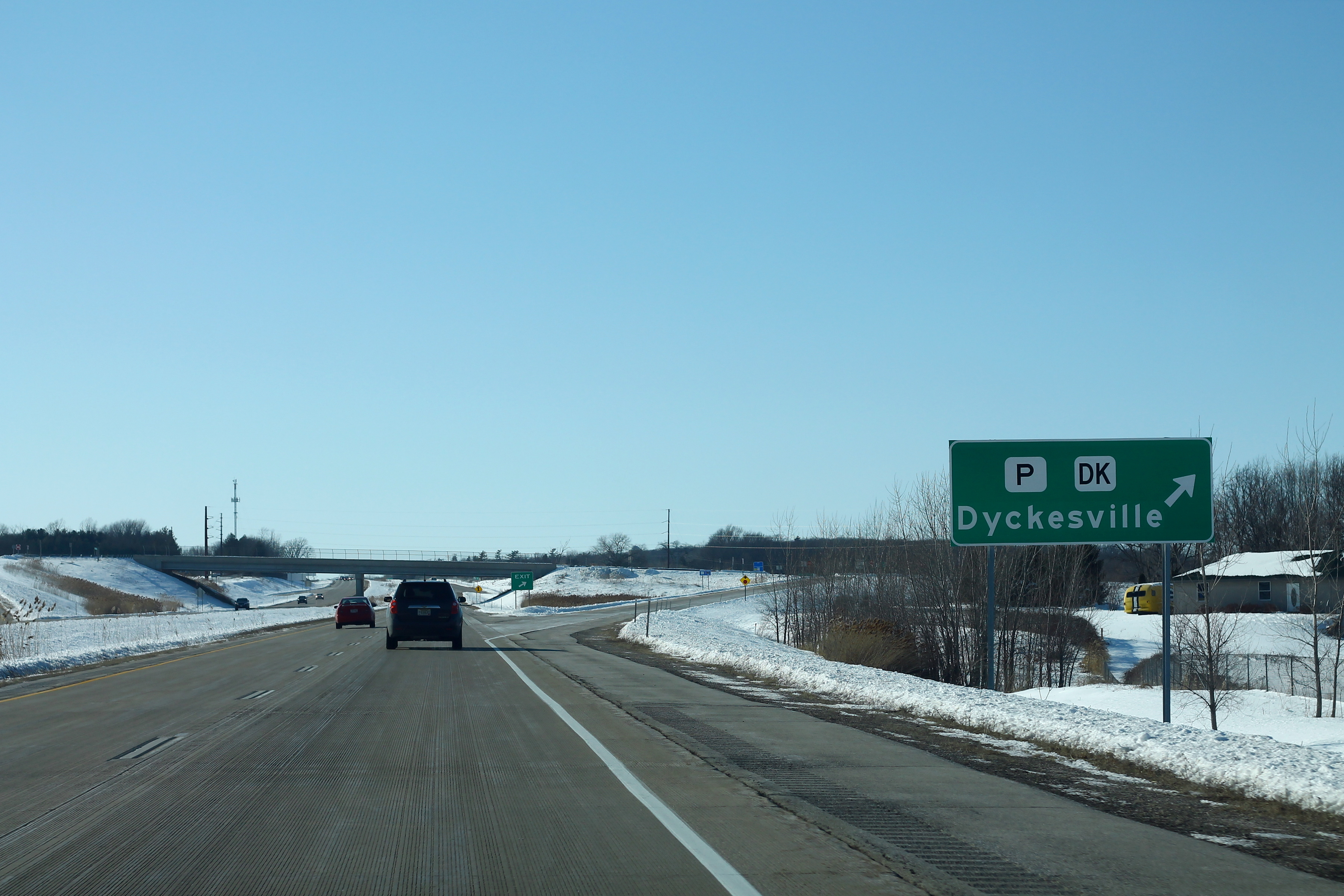 Dyckesville exit and County P overpass in the Town of Green Bay, Wisconsin on February 21, 2020.